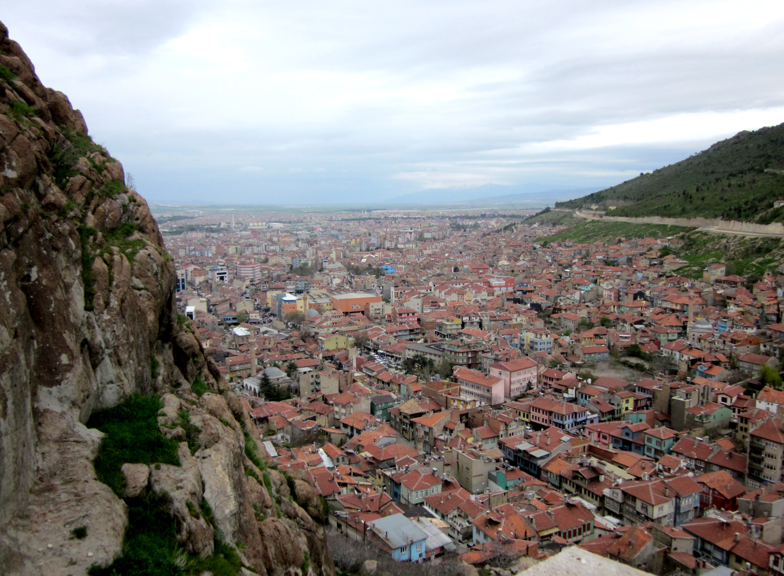 Afyon, Turkey. Old town, seen from citadel hill.